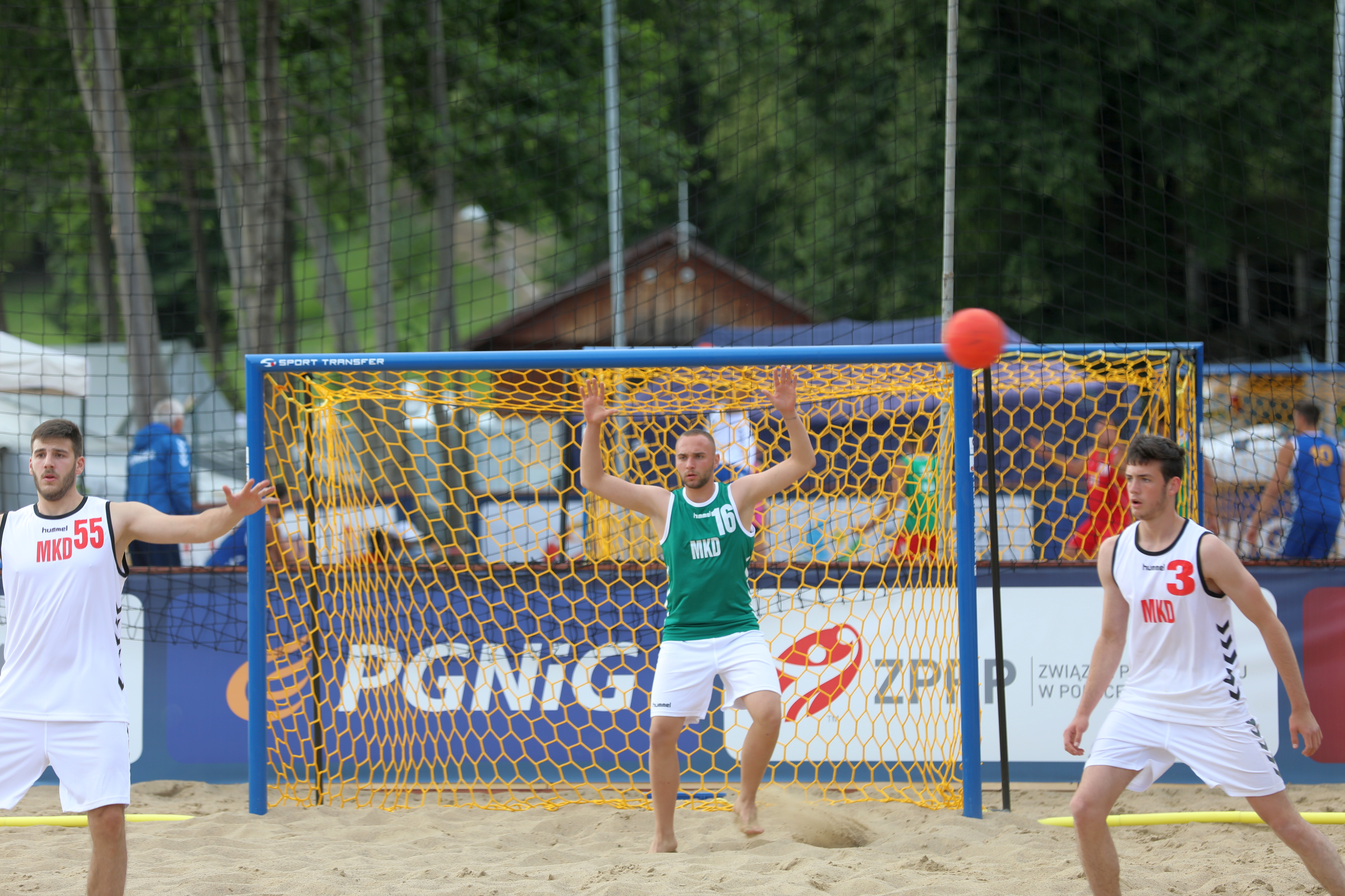 Beach handball Euro; Day 3: 4 July 2019 – Men Consolation Round Group IV – Sweden-North Macedonia 2:0 (20:10, 32:15)